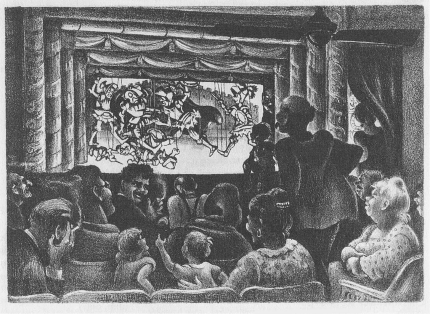 Mabel Dwight, Mulberry Street Marionettes, 1936, lithograph on stone, 25.2 x 35.3 cm, edition of 25 printed by the Federal Art Project